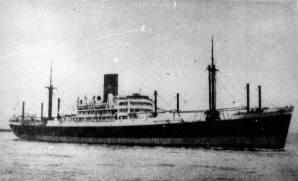 Glenearn (ship)